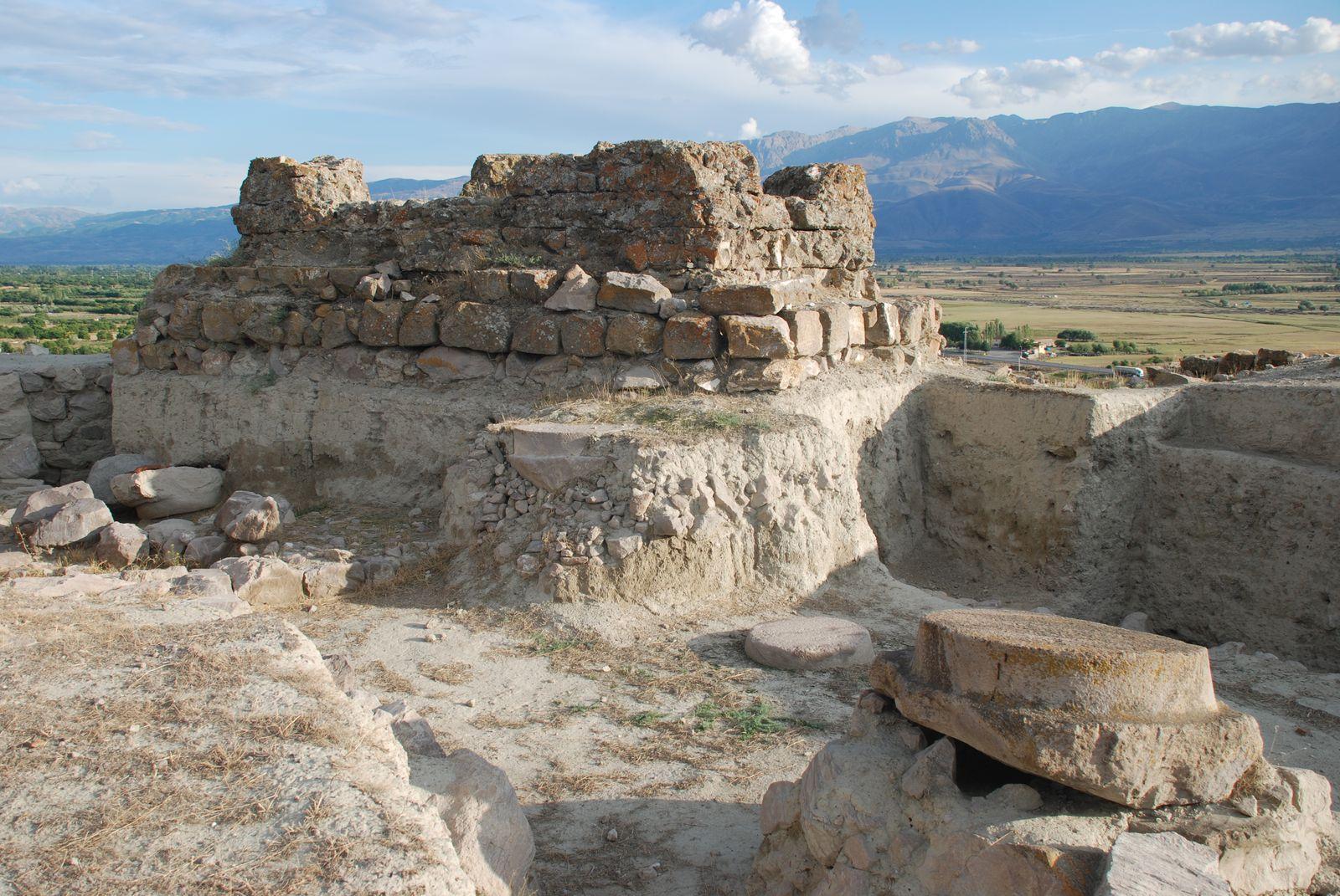 Altintepe, near Erzincan, tower above southern corner of apadana